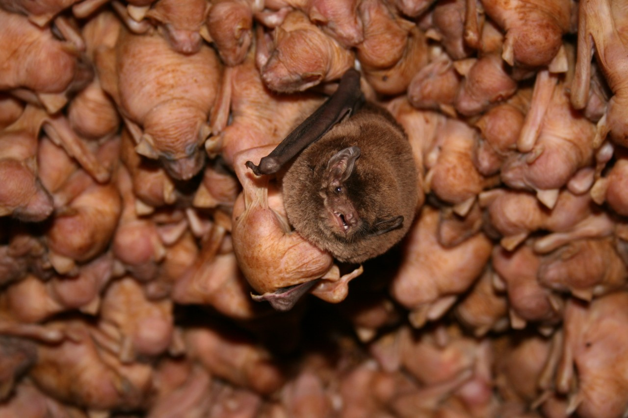 An adult southern bent-wing bat with pups in a cave (Miniopterus schreibersii bassanii)